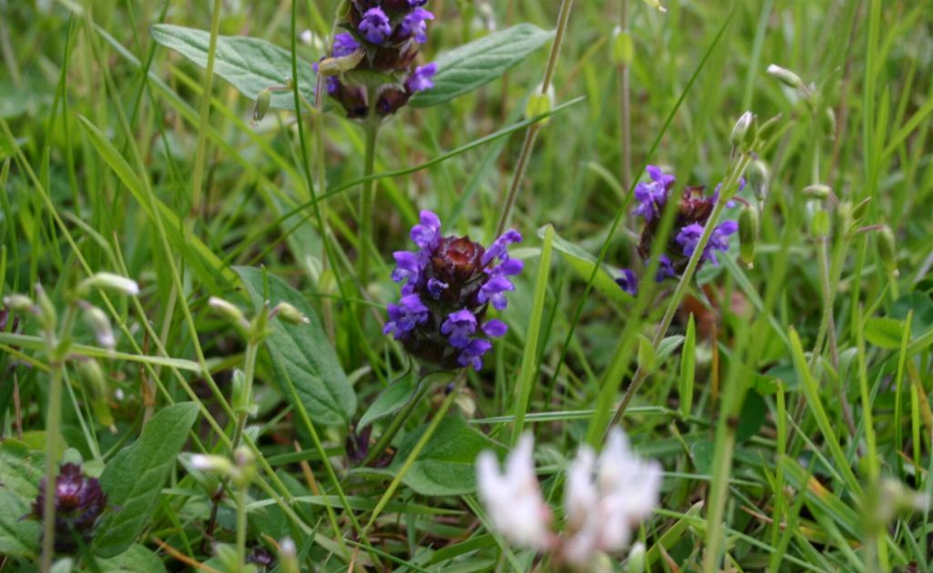 Prunella vulgaris: Flowers and leaves. Photo: Sten Porse